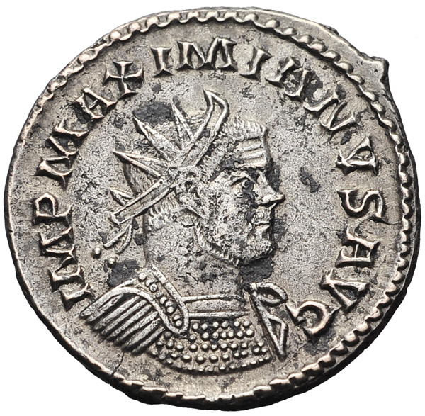 Antoninianus of Maximian. Legend: IMPerator MAXIMIANVS AVGustus